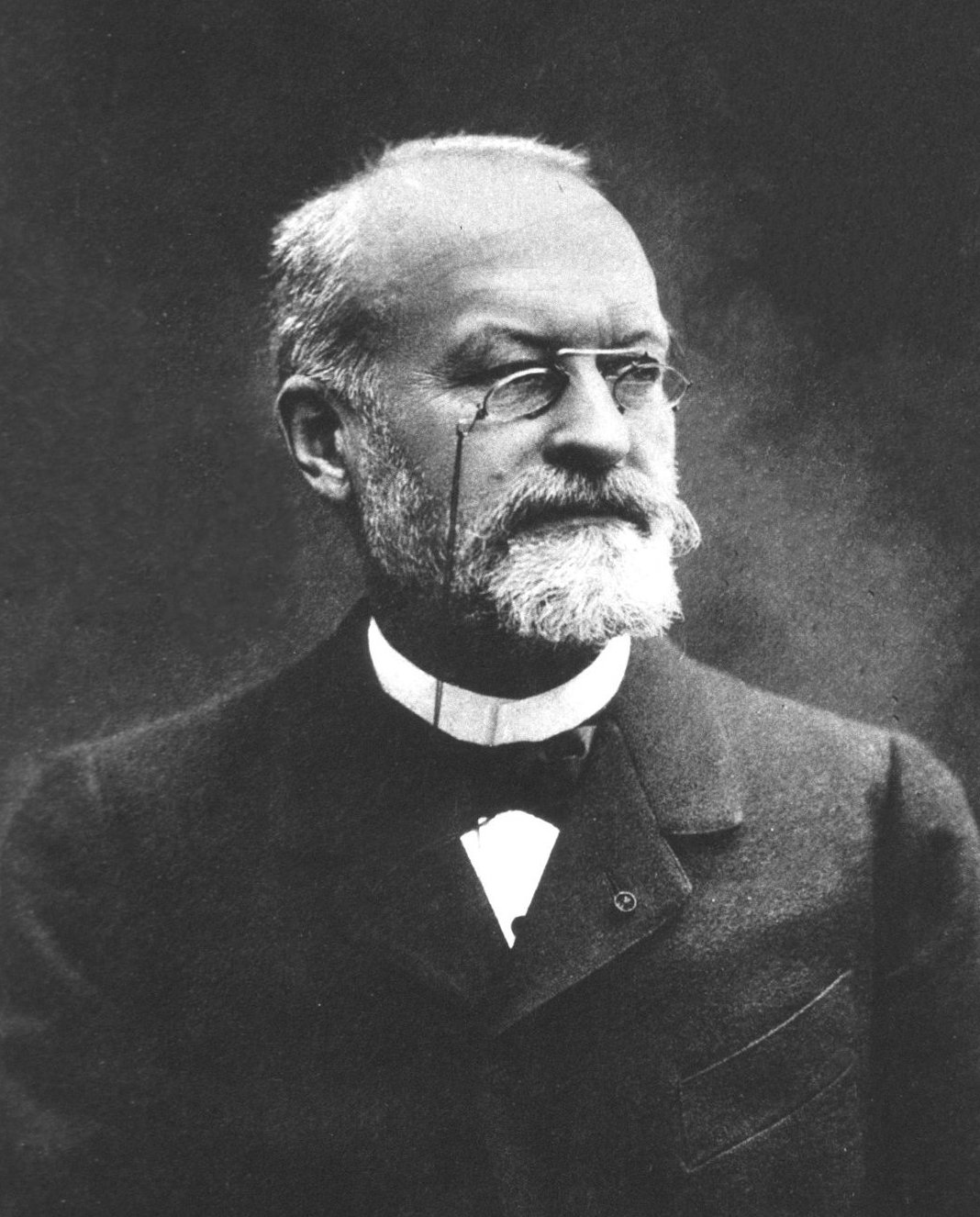 Portrait of Charles Louis Alphonse Laveran (1845—1922).